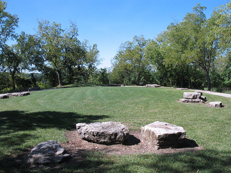 Tower Hill (declared site of a Adam-ondi-Ahman Temple by Joseph Smith) at Adam-ondi-Ahman. Photo by poster in September 2007.